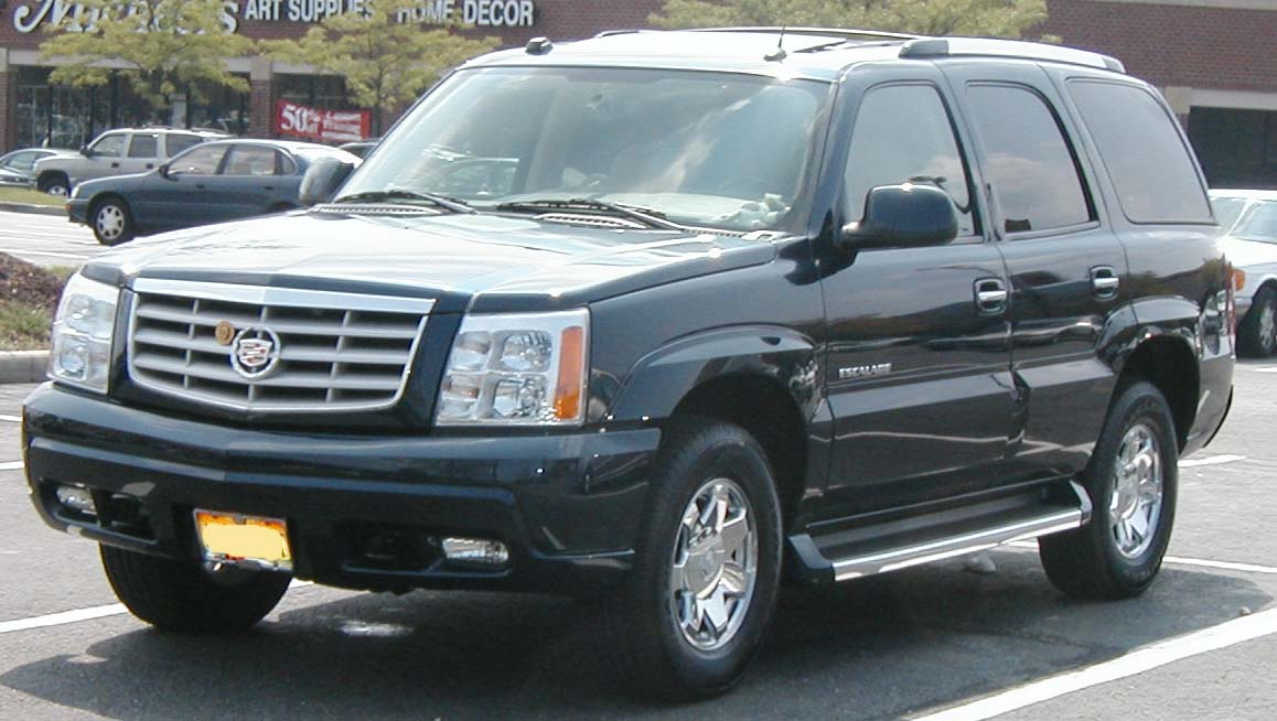 2002-2006 Cadillac Escalade photographed in USA.